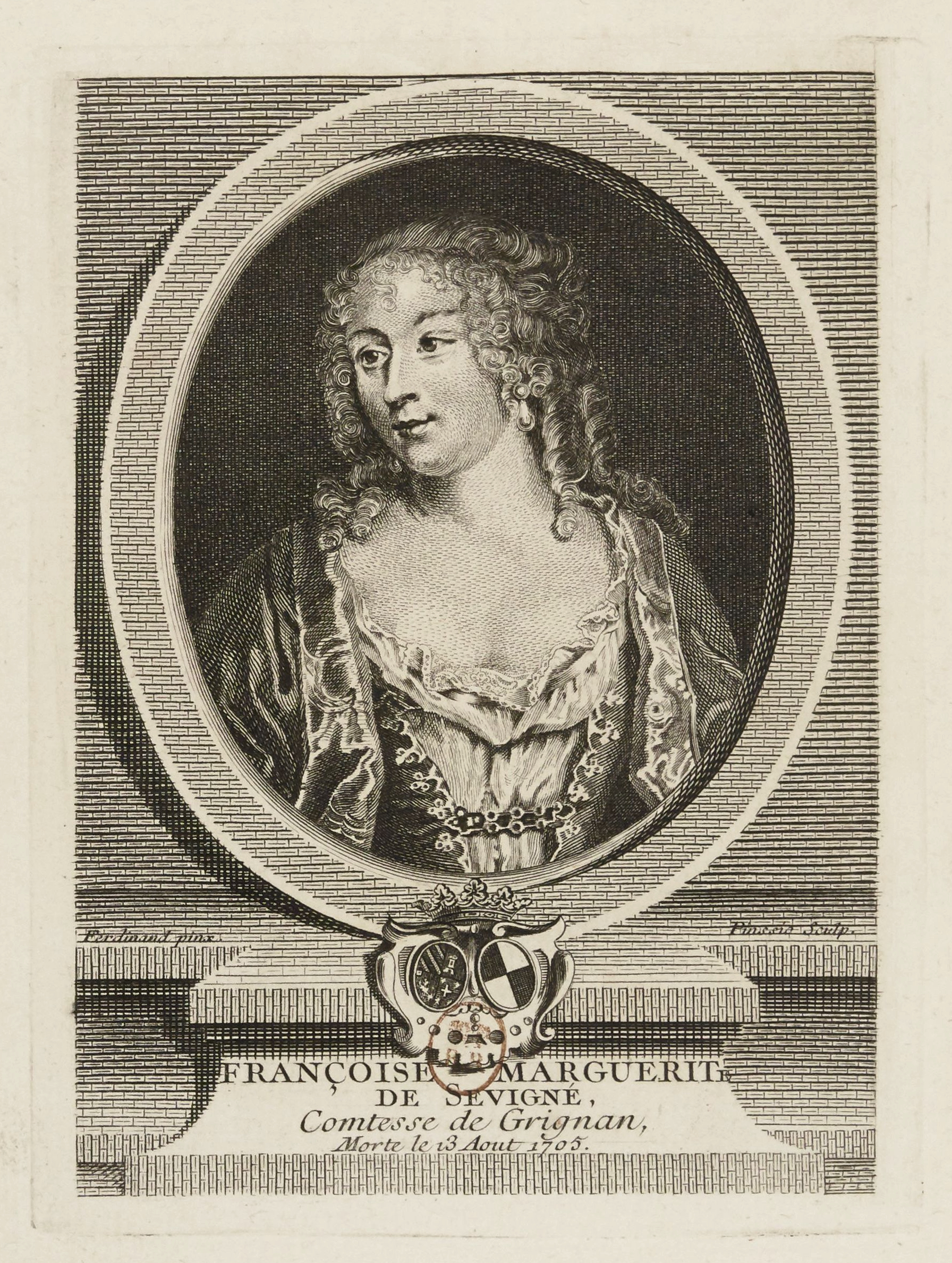 Françoise-Marguerite de Sévigné, countess of Grignan, (1646 - 1705), daughter of Marquise de Sévigné, french writer.